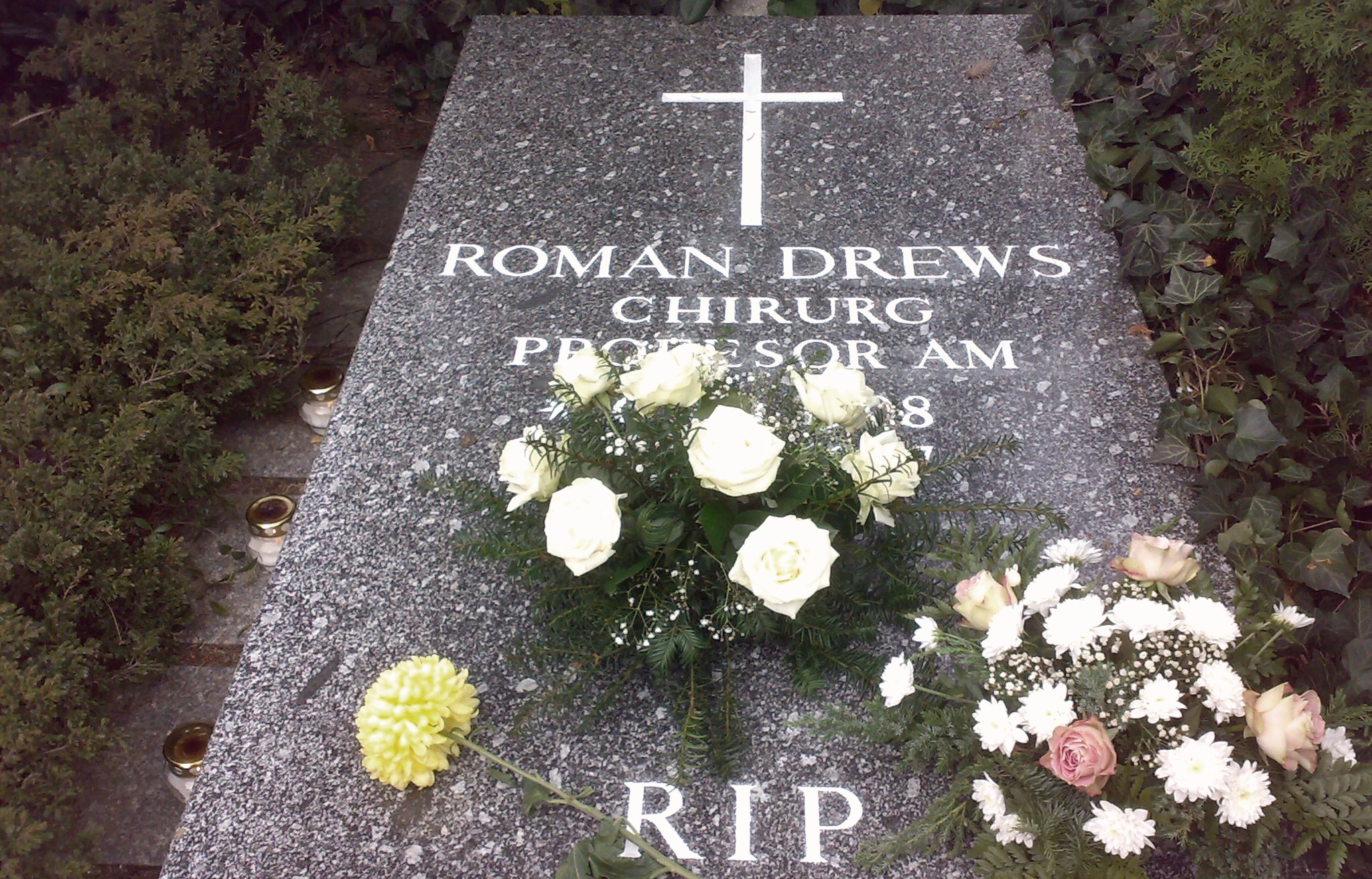 Tomb of Roman Drews (surgerys) in Junikowo-Nekropoly in Poznan.